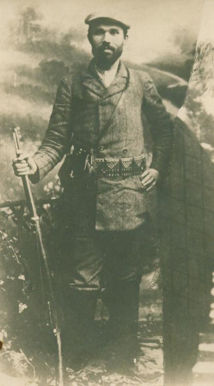 Portrait of Georgi Pophristov, bulgarian revolutionary from IMARO